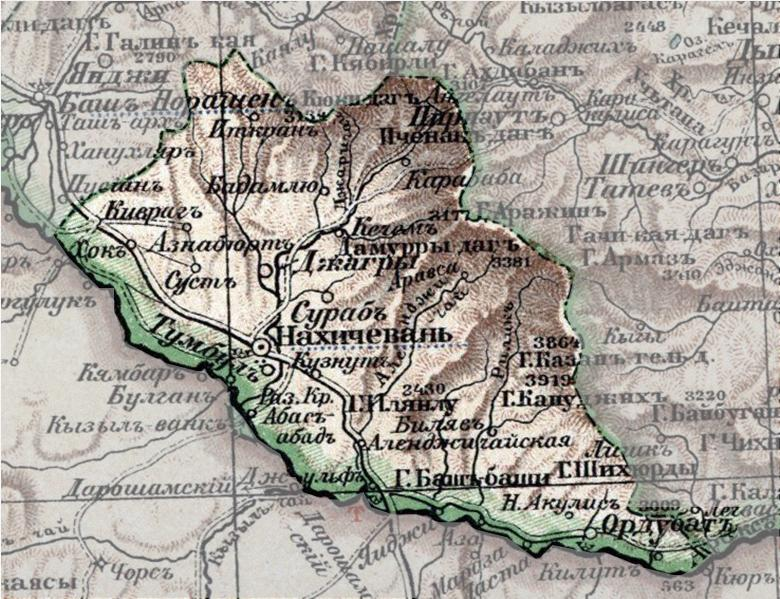 Nakhichevan Uyezd's map